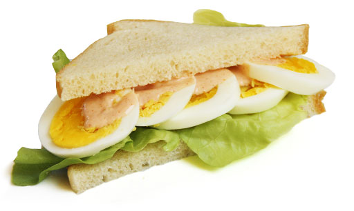 A sandwich with eggs, salad and sandwich sauce.